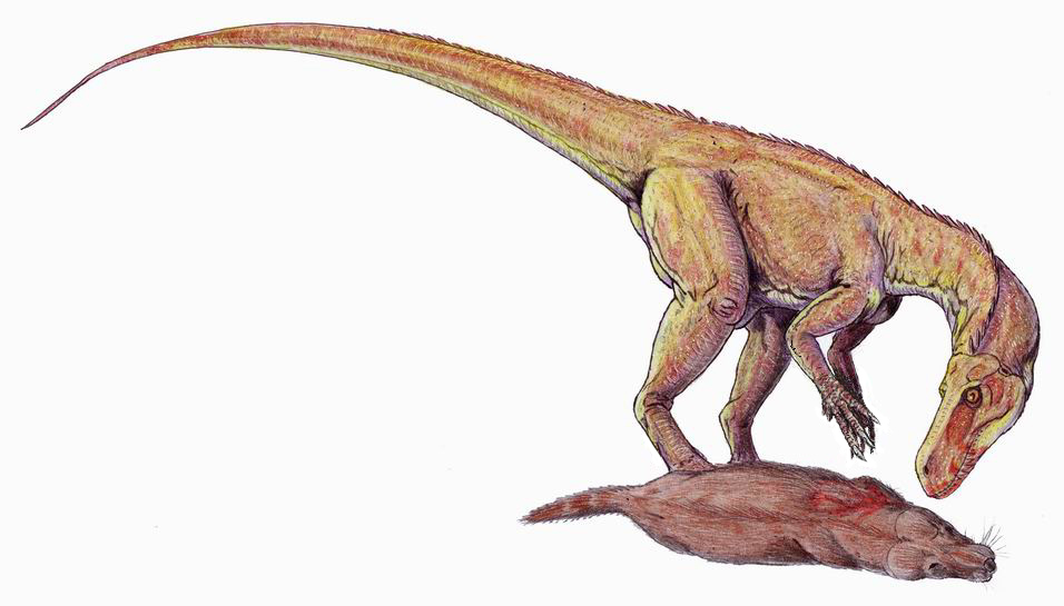 Herrerasaurus: depiction was scrutinised by WikiProject Dinosaurs here